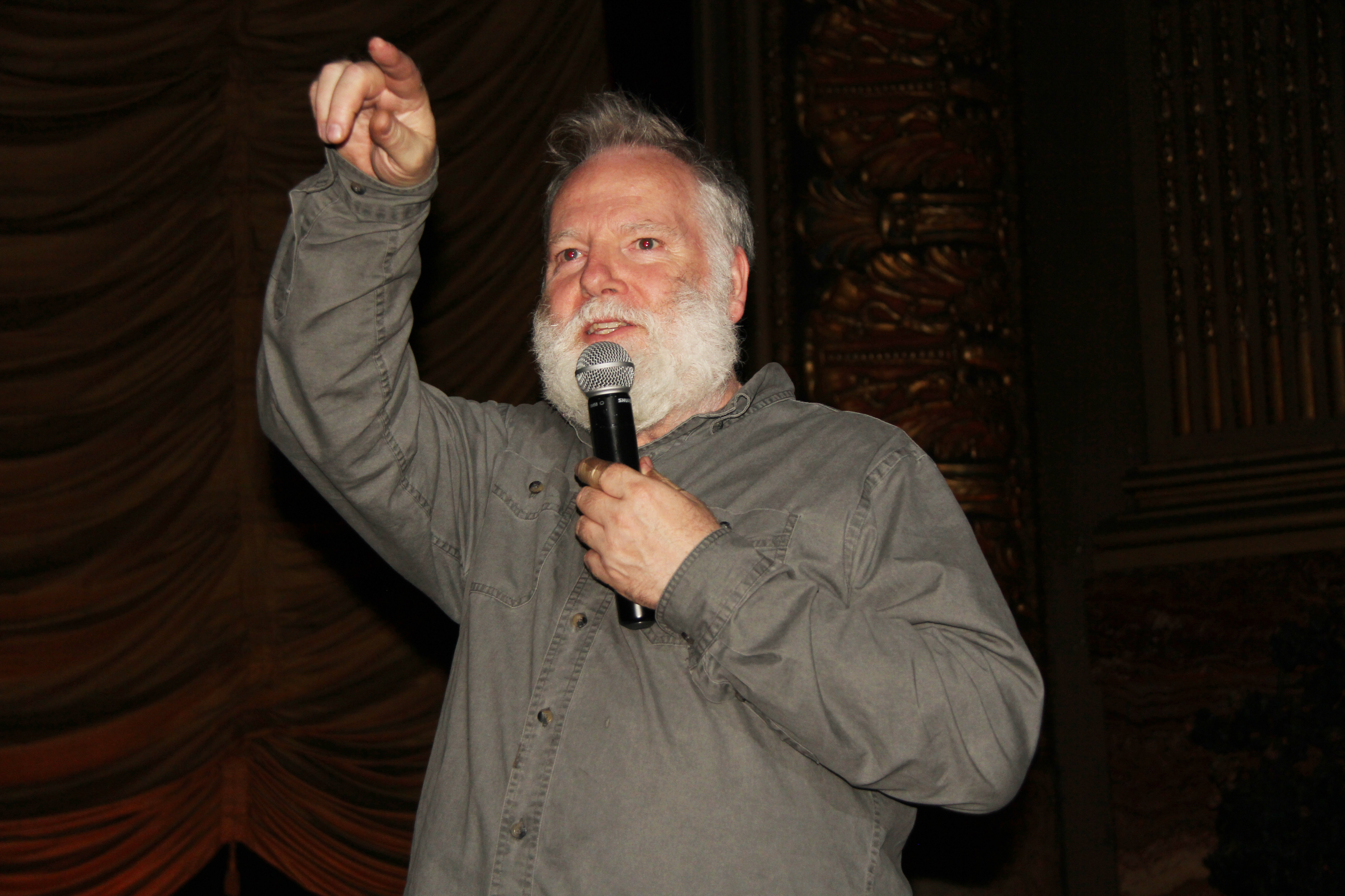 Guy Maddin at the 2017 James River Film Festival (James River Film Society)